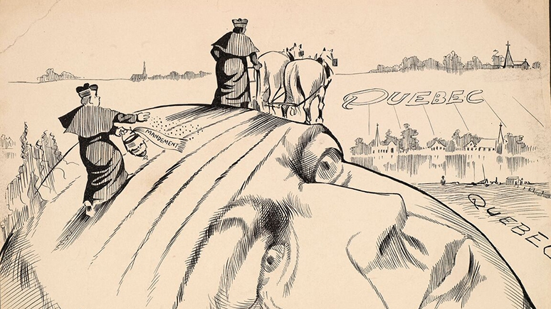 Political cartoon by Canadian cartoonist Sam Hunter